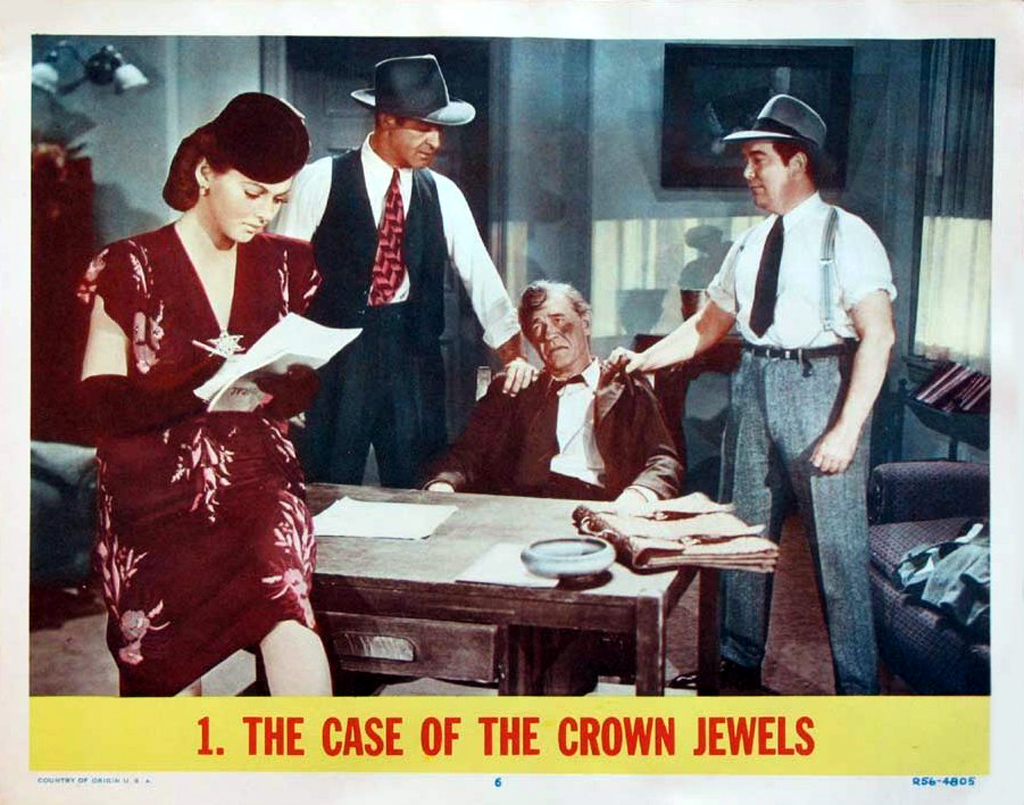 Poster for the first installment of the American film serial Federal Operator 99 (1945).